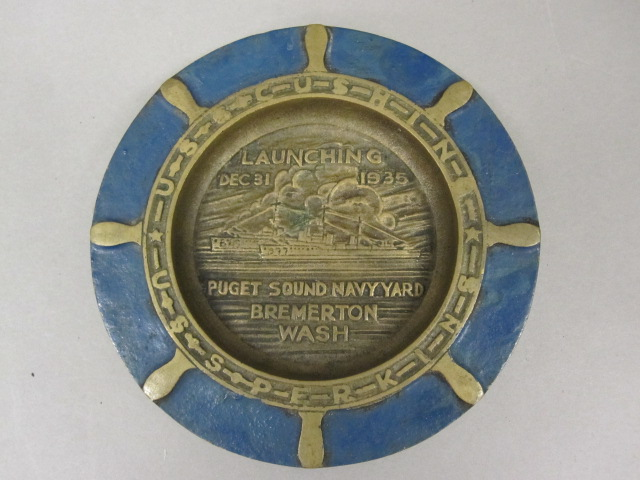 Accession 2011-158-18 Ashtray, Commemorative, Ship Launching. 4 5/8"Dia Brass Ashtray to commemorate the launching of USS Cushing and USS Perkins on December 31st 1935 from the Puget Sound Navy Yard, Bremerton WA. Collection of Curator Branch, Naval History and Heritage Command.